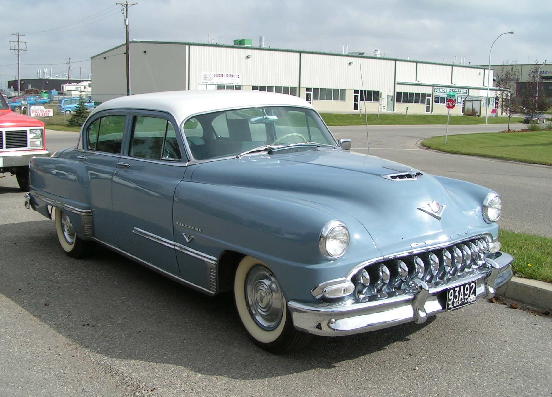 1953 DeSoto Firedome spotted outside a pawn shop in Airdrie. Looked to be in good shape.